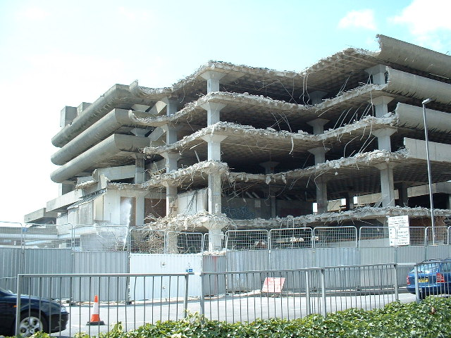 Tricorn Centre, Portsmouth - Demolition. Portsmouth's Tricorn Centre being demolished